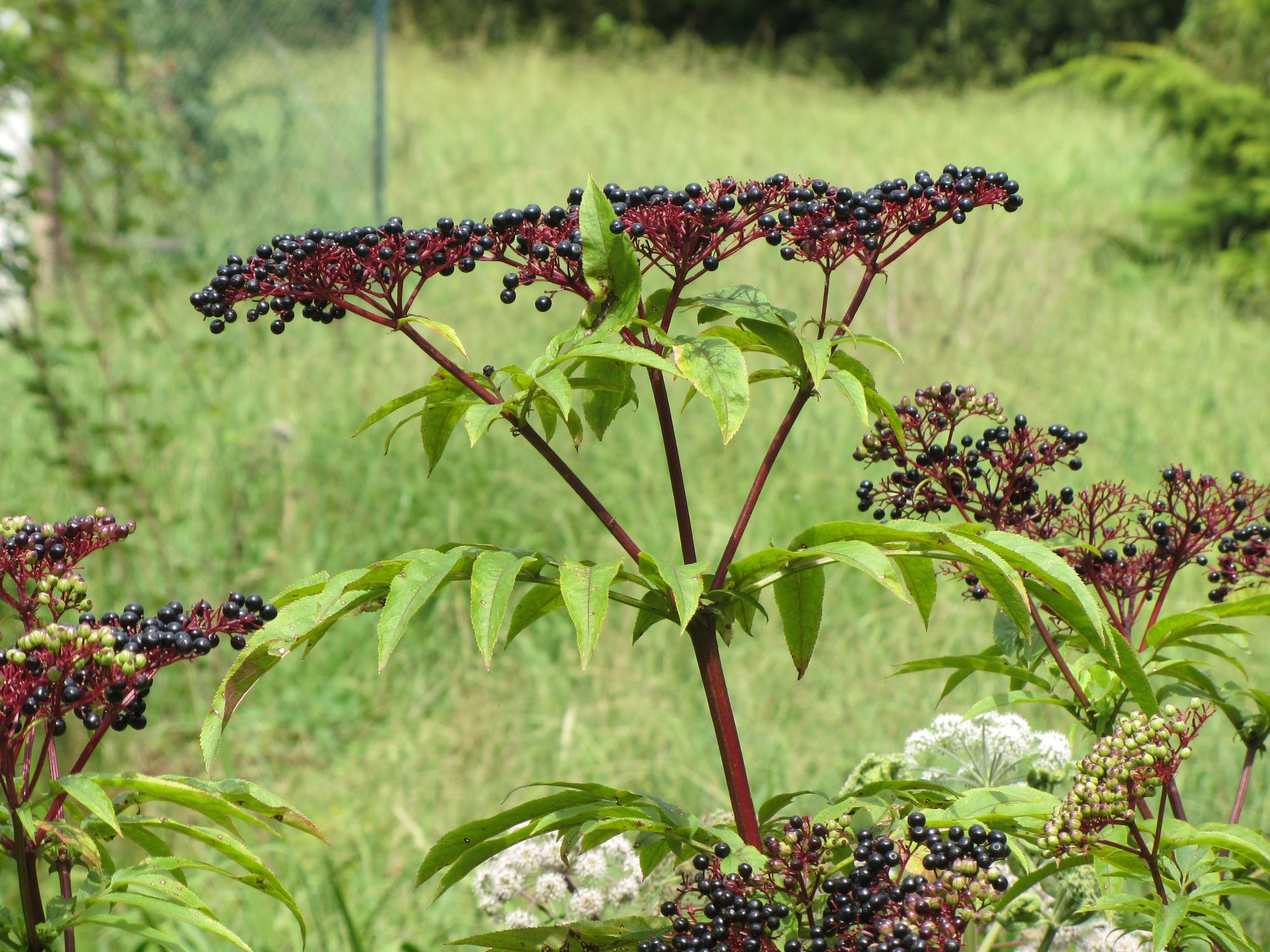 Sambucus ebulus. This photograph was taken on 2011-08-20 at Getxo in the Bizkaia province of the Basque Country (Europe), using a Canon PowerShot SX230 camera. The original size was 4000x3000 pixels, it was reduced to the present size (2000x1500 pixels) using the IrfanView freeware program.